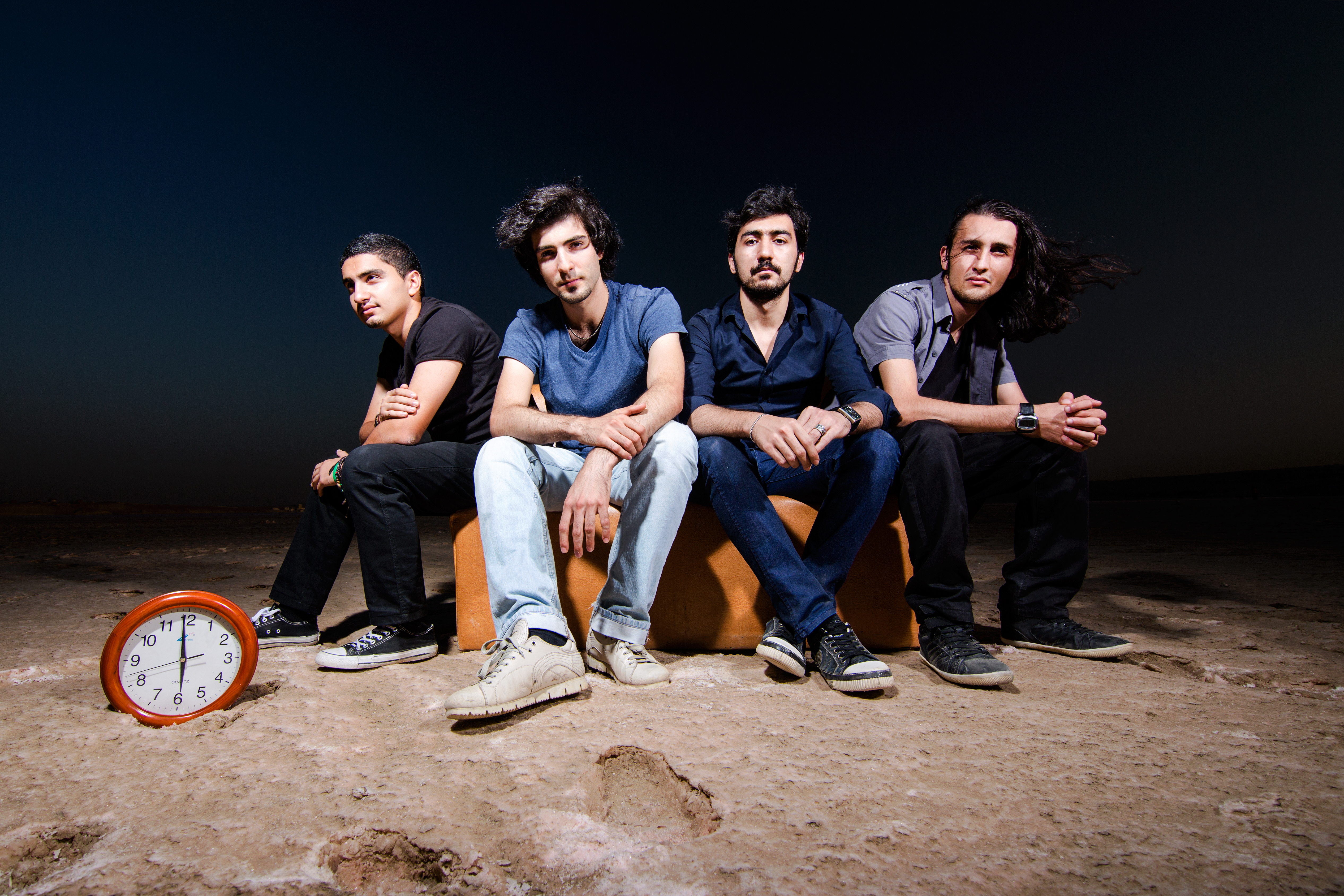 Azerbaijani rock band "5.59" during photosession for their first album "Hamisi Bizdendir".